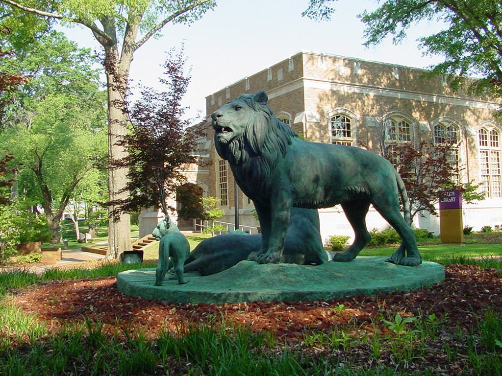 Depiction of lion, lioness and cubs at the University of North Alabama, Florence, Alabama. Taken by me on May, 2007.